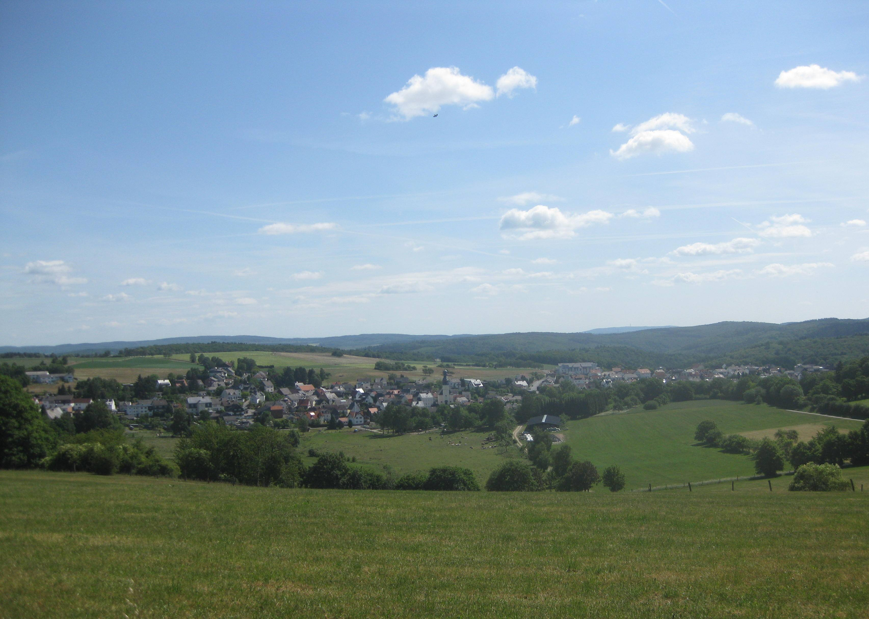 View of Hasselbach im Taunus in Hesse, Germany